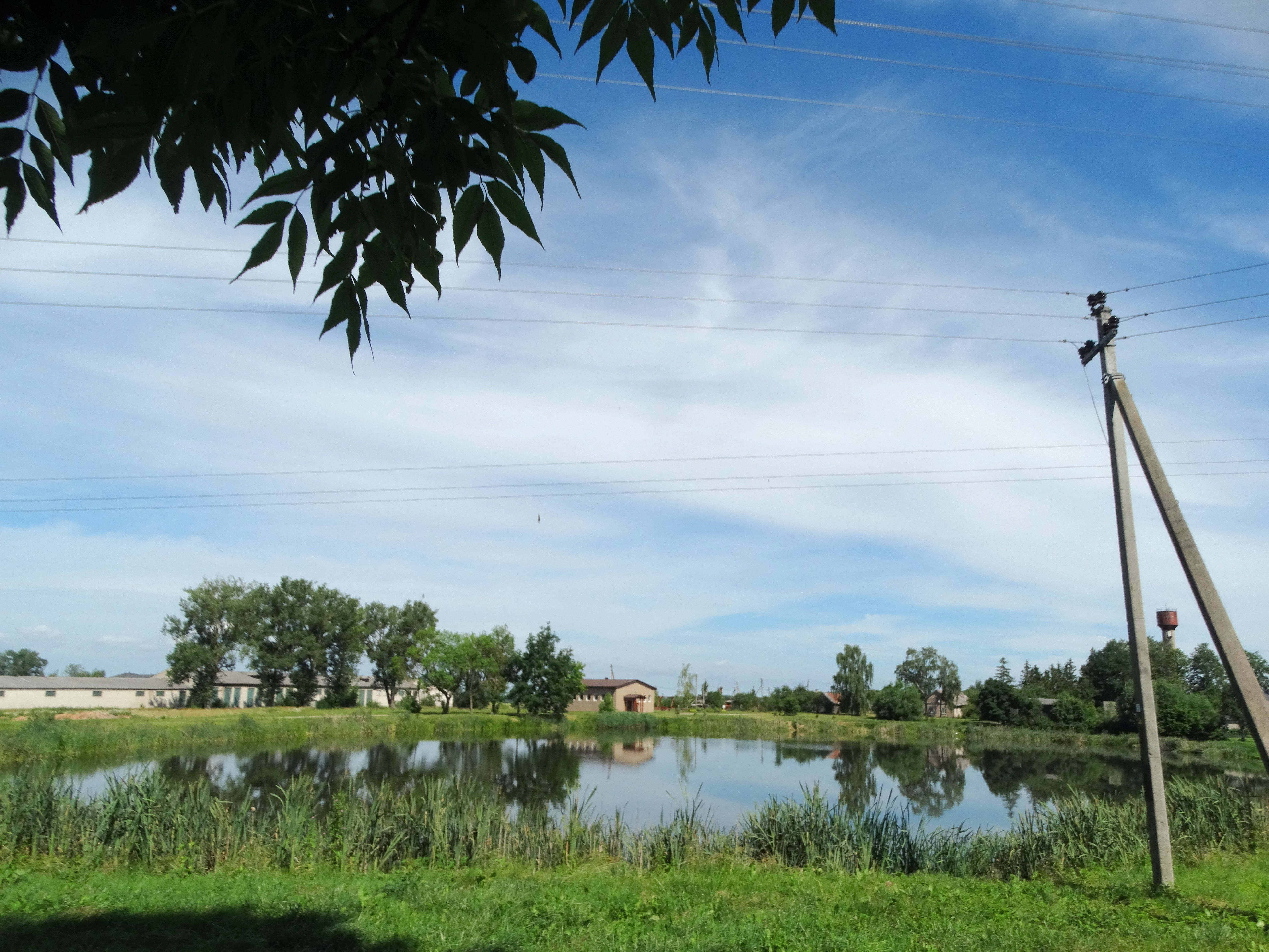 Unnamed small lake, Žeimiai, Jonava district, Lithuania